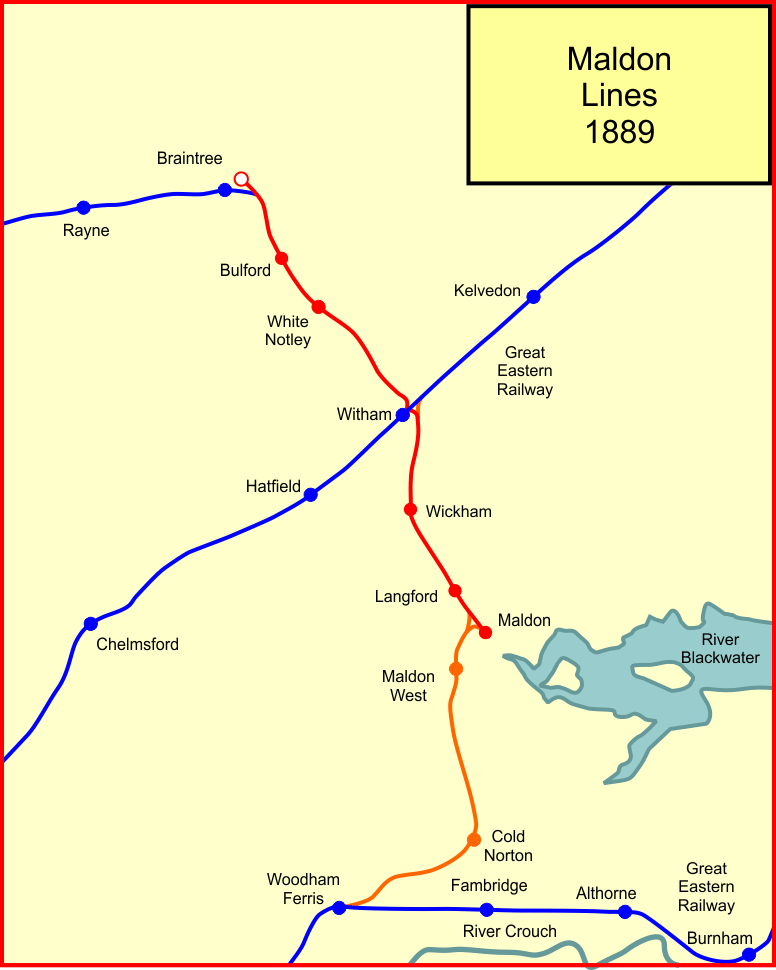 System map of the Maldon railway lines, Essex, England, in 1889